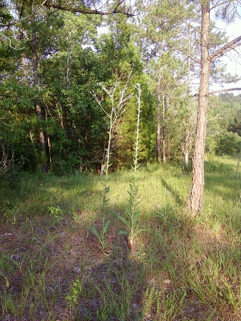 I, User:Trilobitealive, am the creator of this photograph. It was created on June 27, 2010. It shows two flowering stalks of Eriogonum longifolium var. harperi.